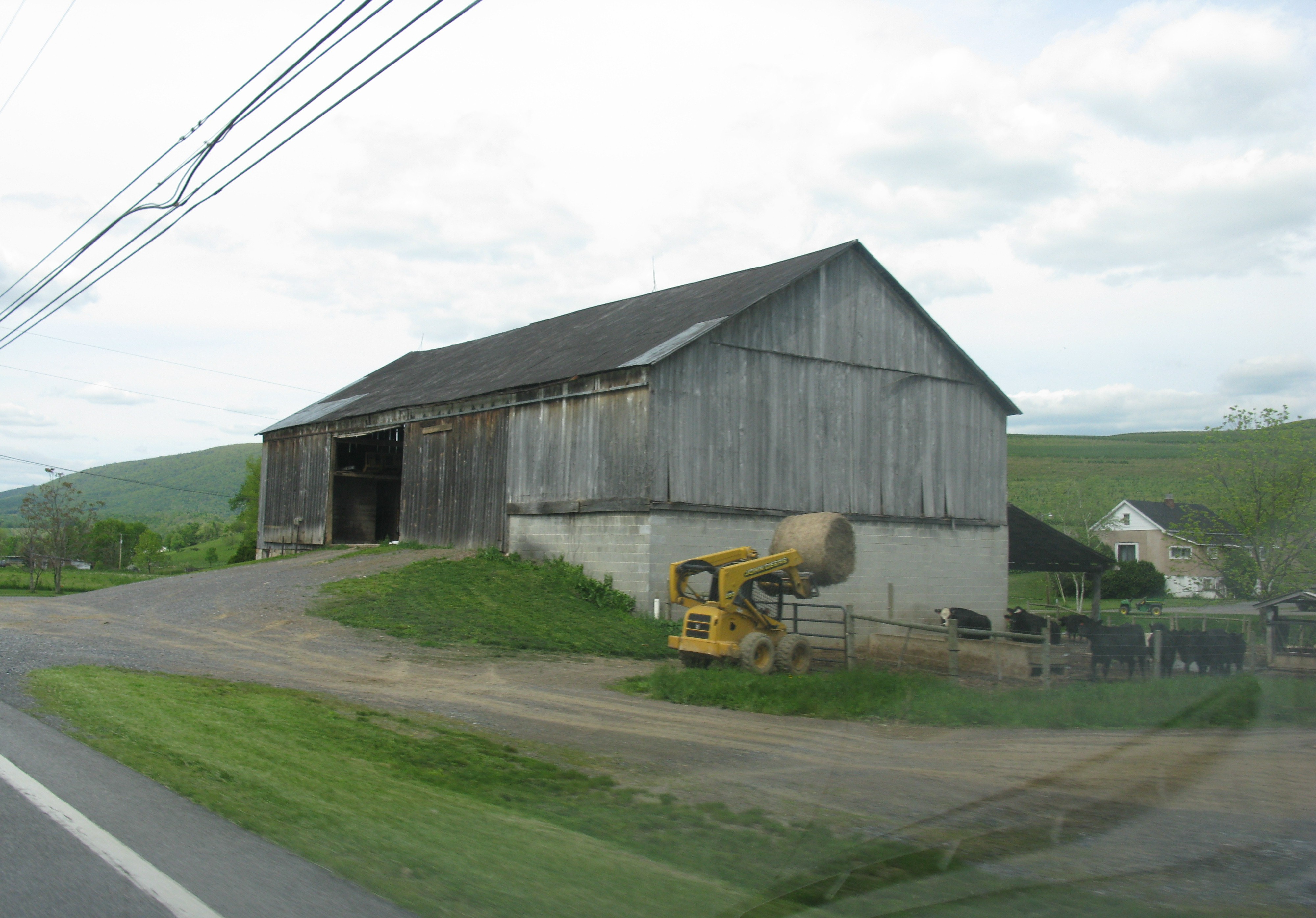 Agricultural buildings along SR 26, Hopewell Township, Pennsylvania